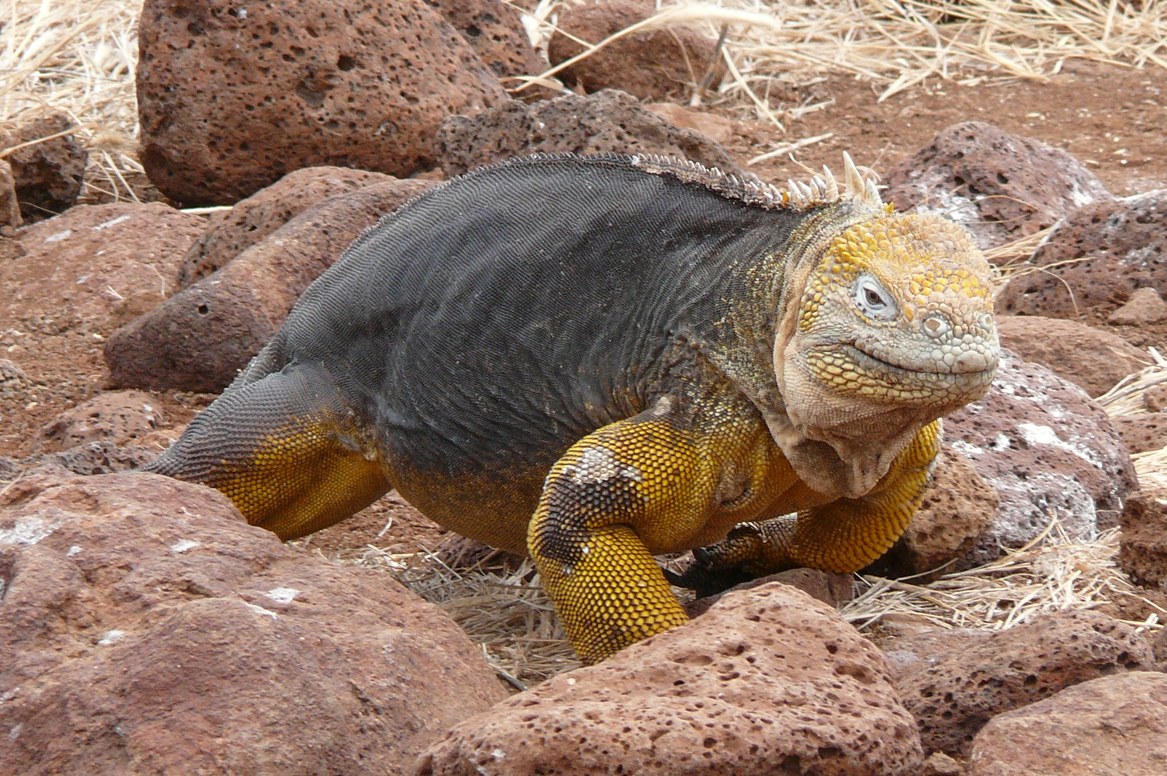 Galapagos Land Iguana (Conolophus subcristatus), North Seymour (Galápagos Islands)